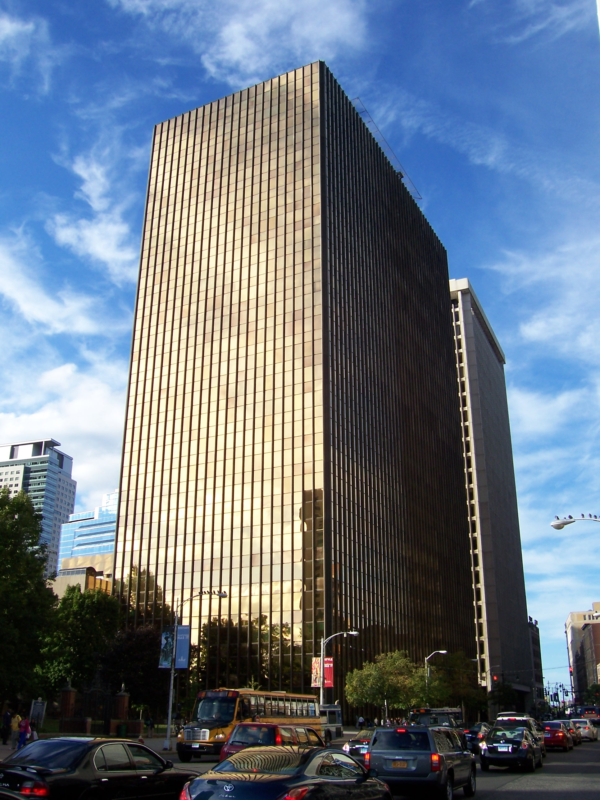 United Technologies Corporation headquarters in Hartford, Connecticut